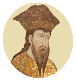 King of Serbia, Stefan Uroš III Dečanski (Nemanjić).